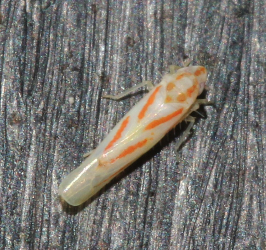 Dikrella cruentata. Species of insect.